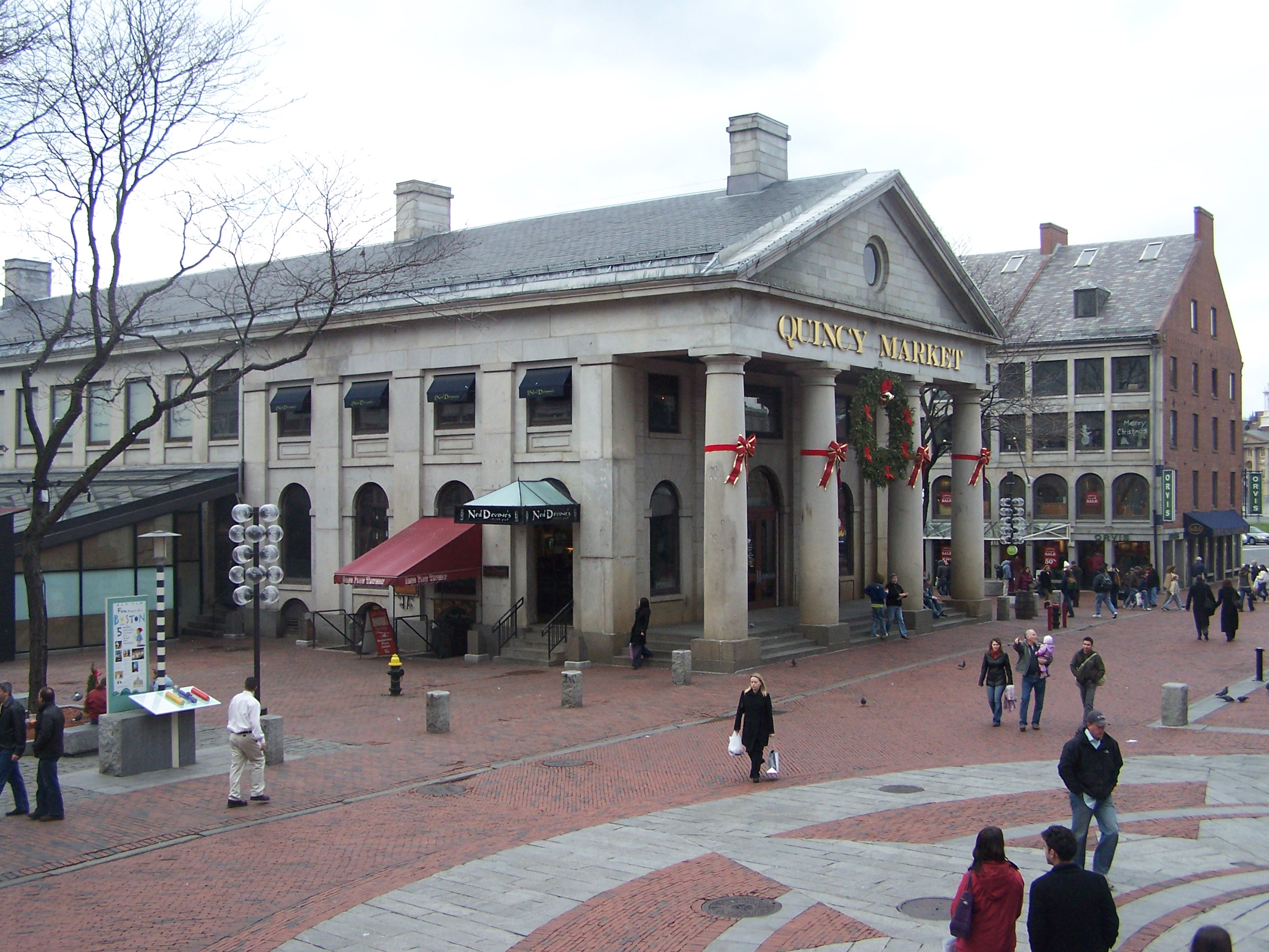 Quincy Market in Boston, USA.